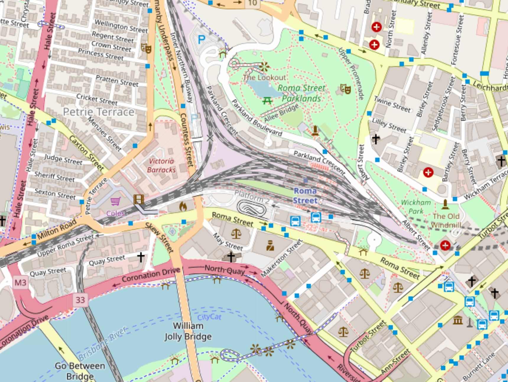 Map showing Roma Street and Upper Roma Street, Brisbane, 2018